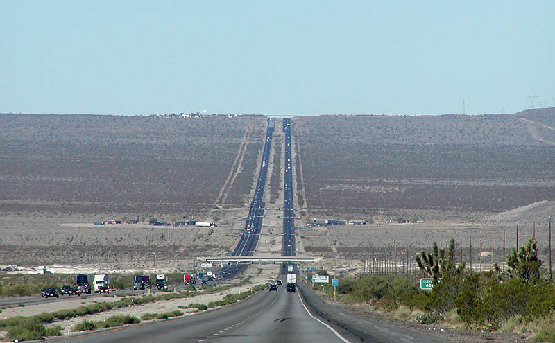 Photo of Shadow Valley seen from Interstate 15 in California